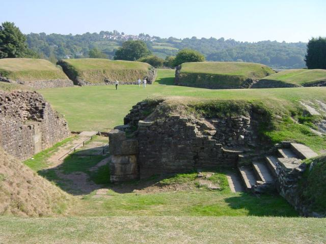 Roman Amphitheatre at Caerleon